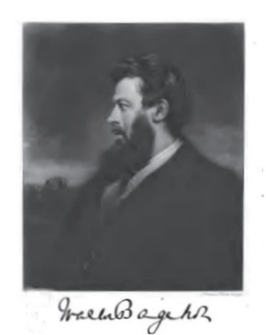 Portrait of Walter Bagehot, from a mezzotint by Norman Hirst. in Mrs. Russell Barrington, ed., The Works and Life of Walter Bagehot, London, New York, Bombay, Calcutta and Madras, Longmans, Green, 1915. This is the frontispiece to volume 10 of Works and Life. The original mezzotint, after an unidentified artist, was published in 1891. It is in National Portrait Gallery, London.